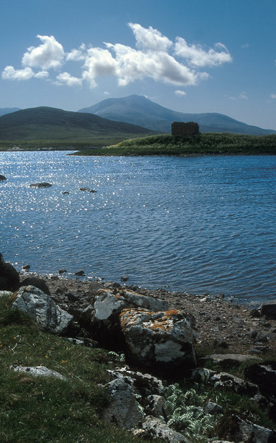 Caisteal Bheagram Looking across Loch an Eilean towards Ben More